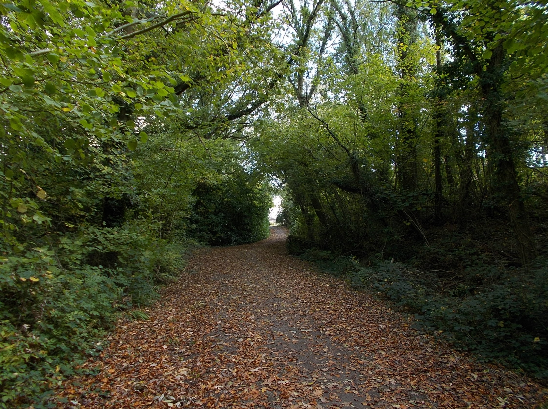 Site of original Wootton Railway Station, Isle of Wight, UK